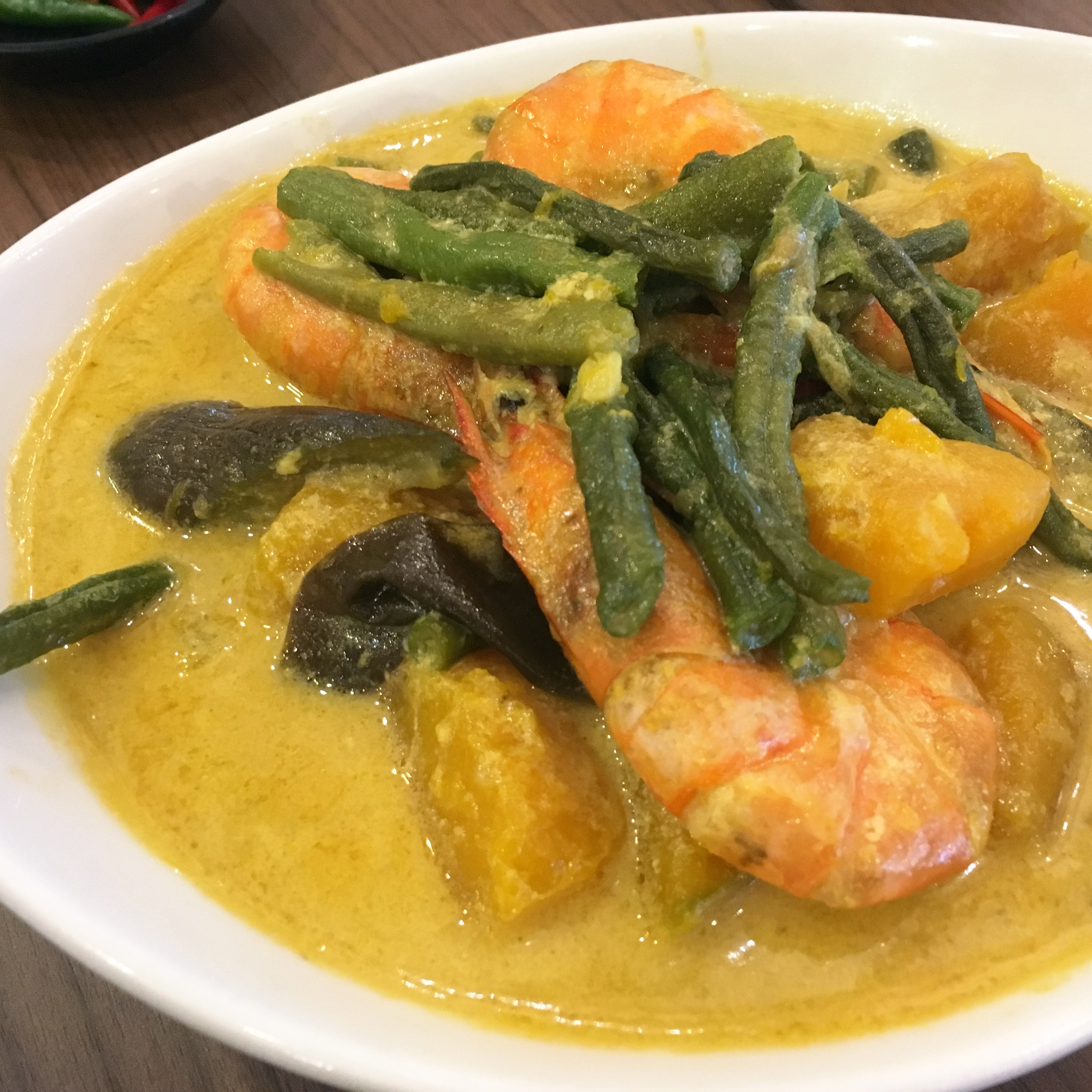 Ginataang kalabasa at hipon (shrimp, calabaza, green beans, and eggplant in coconut milk) - Philippines